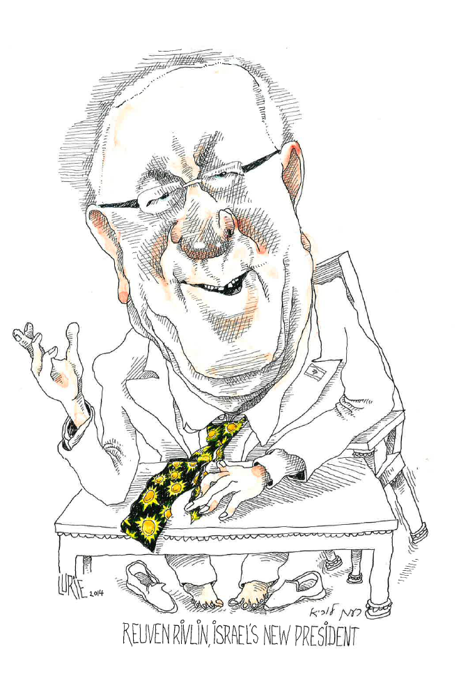 Reuven Rivlin, tenth president of Israel, by Raanan Lurie